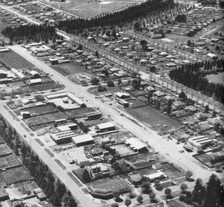 aerial photo of Braddon from c1950